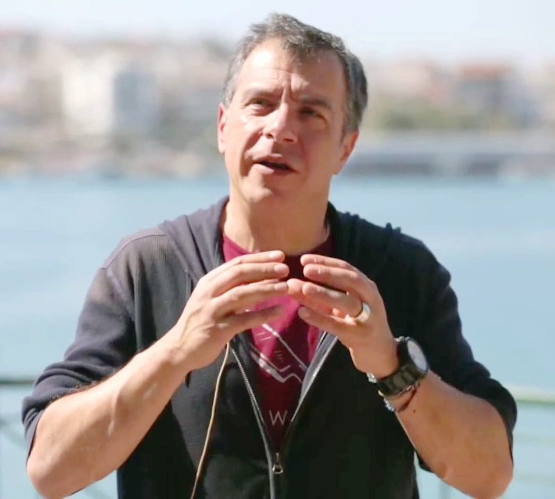 Stavros Theodorakis, Greek journalist and founder of the political party To Potami in 2014.